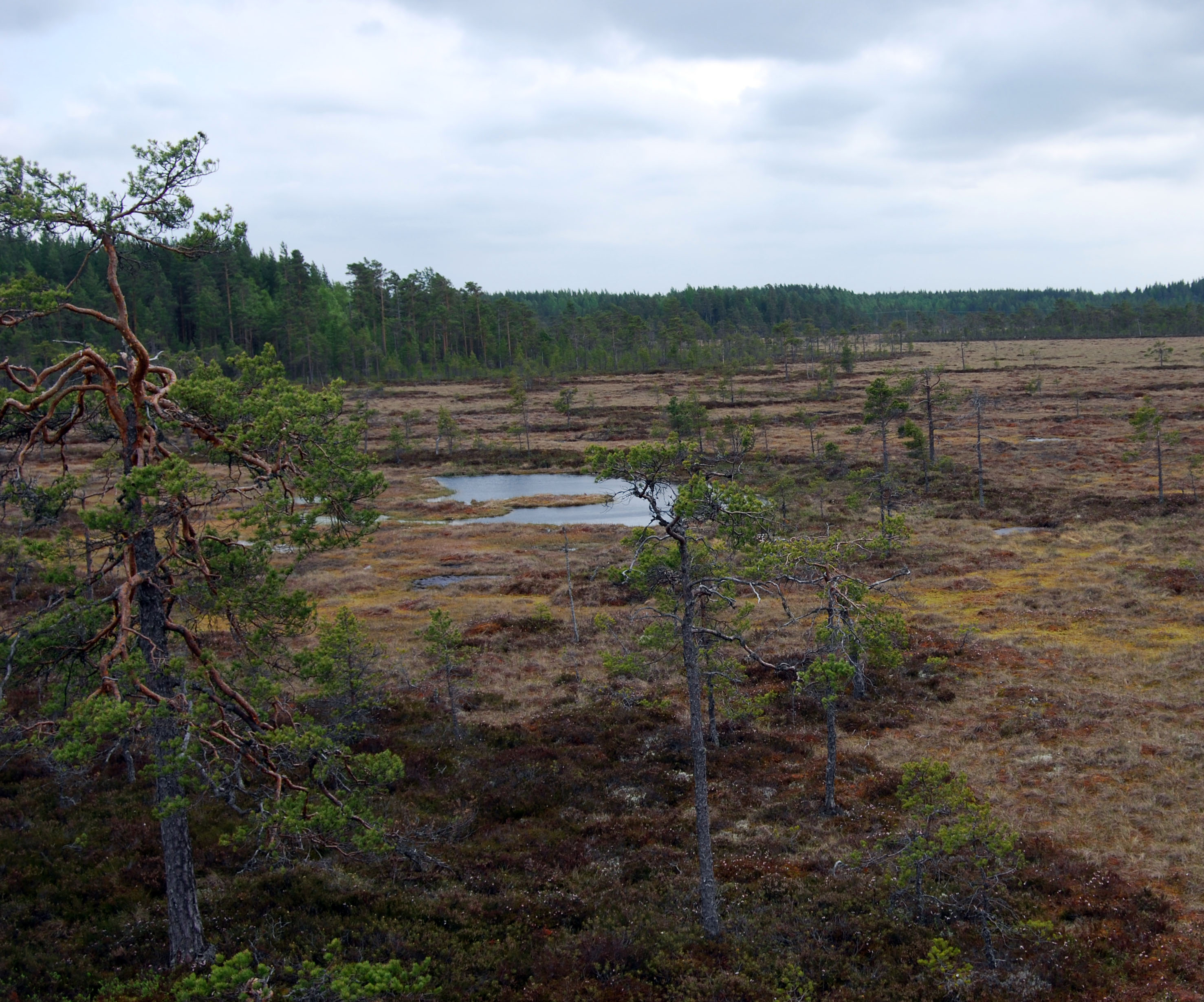 Photo from Isosuo mire in Huittinen, Finland